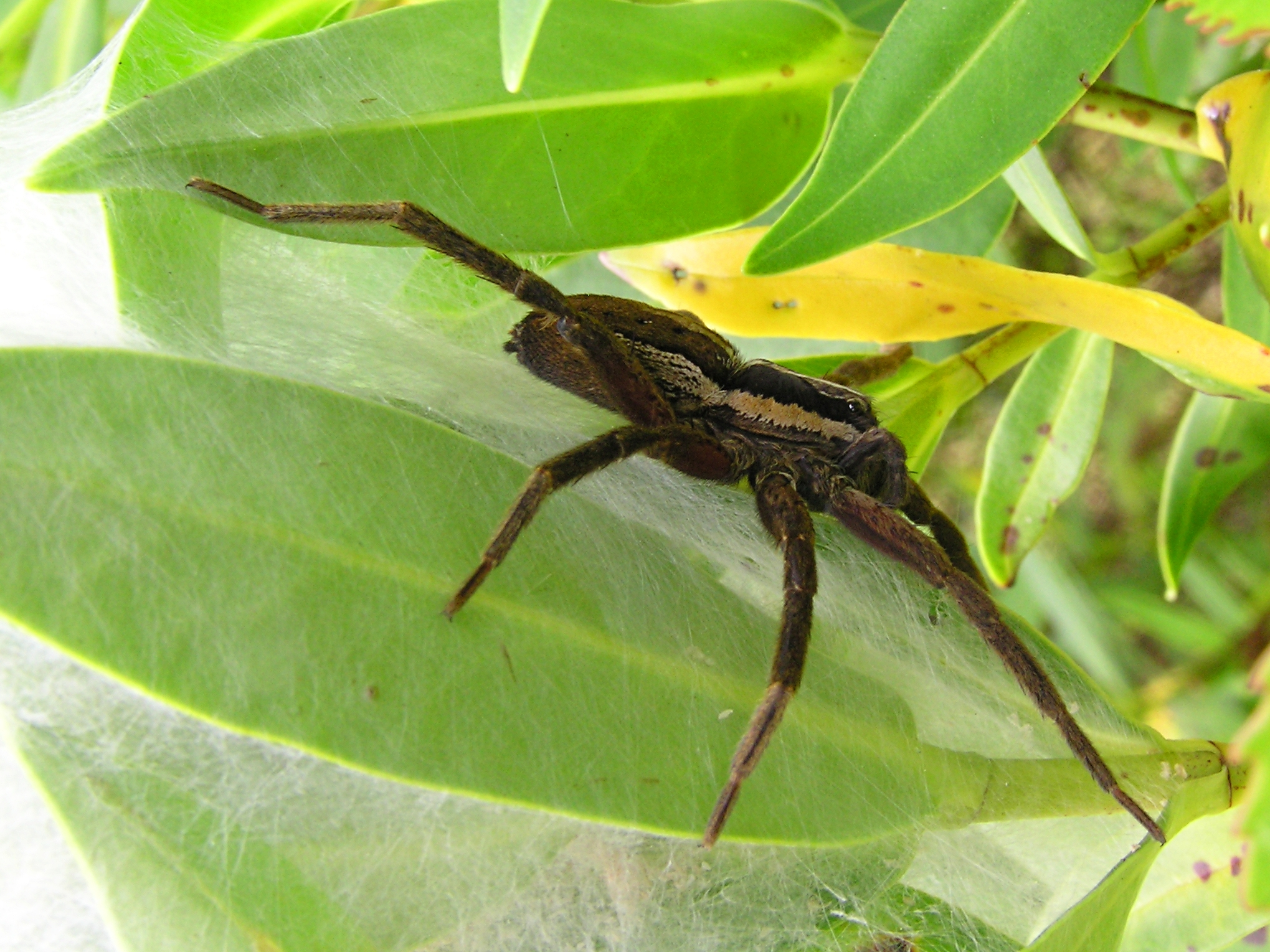 New Zealand Nursery web spider, Dolomedes minor